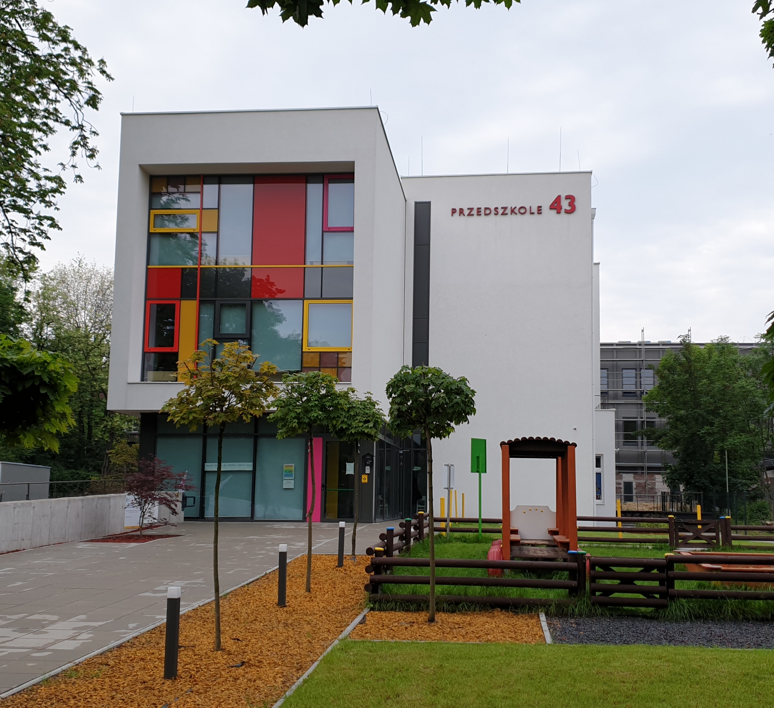 43rd kindergarten in Zabrze, Klonowa 2 St., May 2019 Building of the kindergarten was designed by Projekt Plus s.c., after renovation. Building was winner of Fasada Roku 2018 contest.